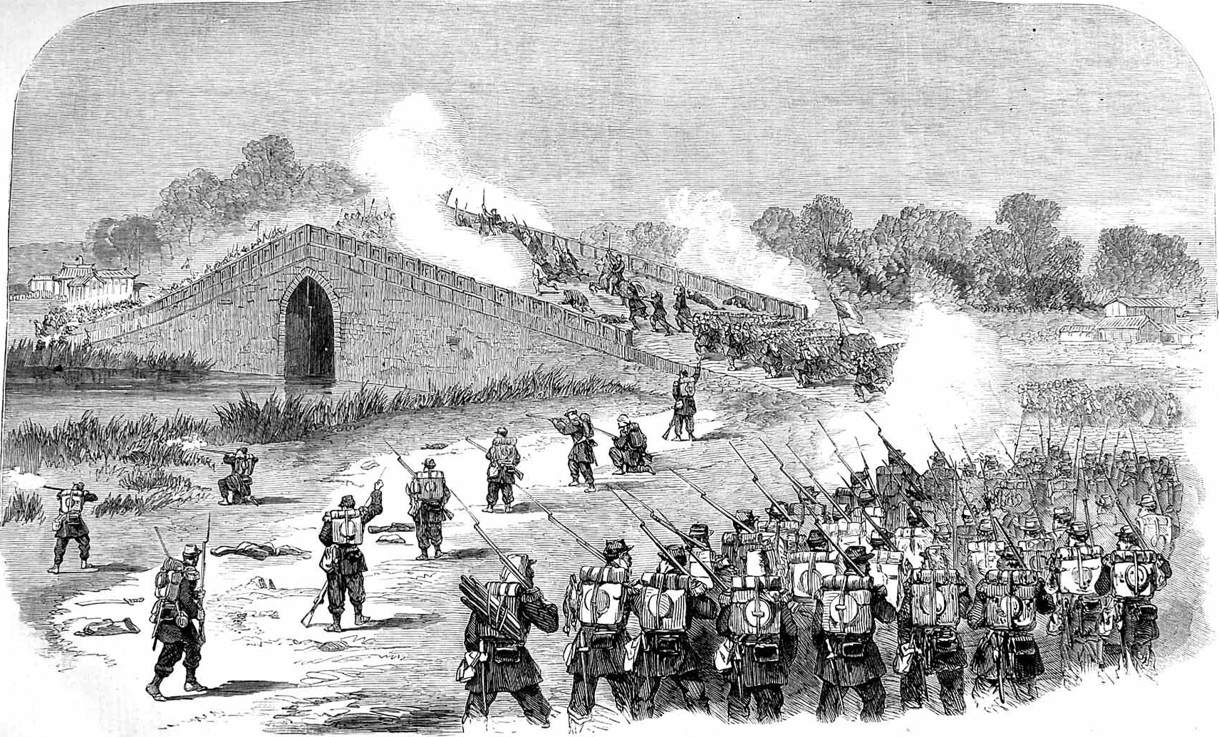 French attacked the bridge, Battle of Baliqiao. Newspaper: The French attack on the bridge Pa-Li-Chian, eight miles from Pekin. - From a sketch by our special artist in China. Battle Near Pekin. Sir J. Hope Grant, in a despatch to the Secretary of state for war, writes as follows respecting the engagement of the 21st of September, near Pekin - two striking incidents of which, from Sketches by our special artist accom - panying the allied forces, we have engraved. Head-quarters, camp near Tang-Chow, Sept. 22. Sir, - I have the honour to report that after the action of the 18th instant I remained in Chang-Taia-Wan for two days, during which time the 1500 French troops left at Hooseiwoo joined of junks coming up the Peiho with further supplies. From reconnaissances on the 19th and 20th we had ascertained that the Chinese army was encamped in very large numbers about four miles off, on the road between Tang-Chow and Pekin, and on both sides of the canal which runs from the Peiho to the latter city. At daybreak on the 21st I marched from Chang-Tsin-Wan, and parking the baggago in a village two miles in front, was there joined by the French, who advanced on the right. Soon after passing Tang-Chow the French troops got under fire of the Chinese works thrown up to protect a fine bridge crossing the canal, and on the Imperial high road to Pekin. At this point the enemy's infantry appeared in considerable force. On the left the Tartar cavalry showed in large masses, and advanced rapidly until within 200 yards of our guns, which, hastily unlimbering, drove them off with a fire of canister, assisted by skirmishers thrown forward from the 2nd (Queen's).